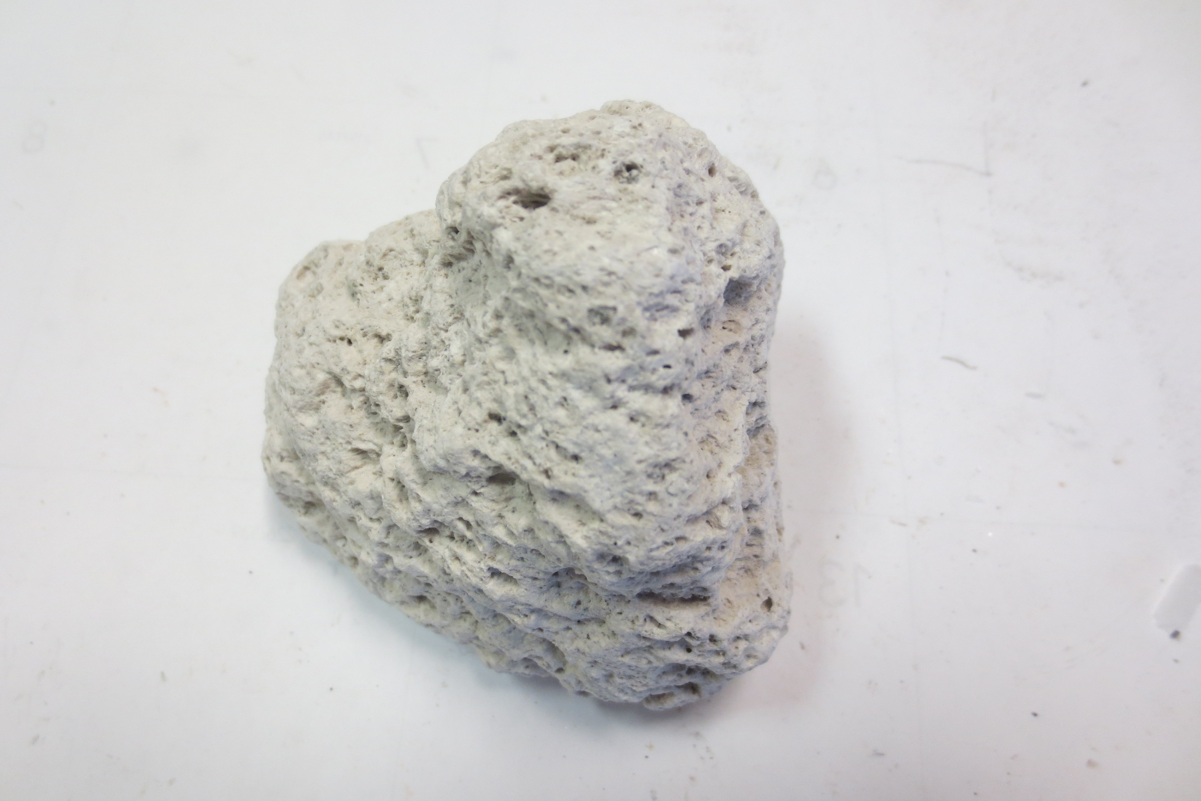 Pumice